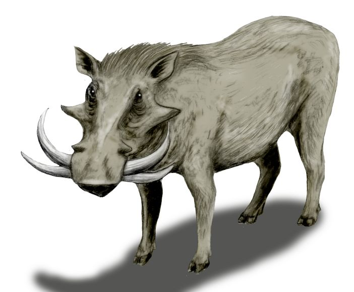 Metridiochoerus jacksoni, a warthog from the Lower Pleistocene of Africa, pencil drawing, digital coloring